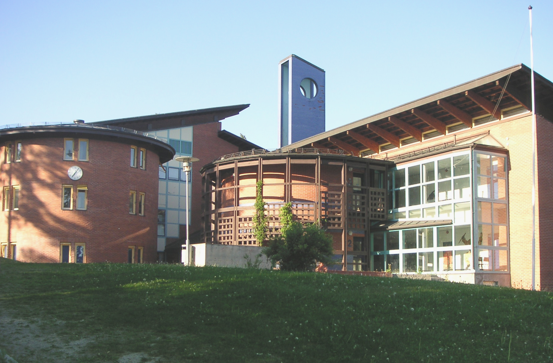 Midtstuen is a secondary school (7th to 10th grade) in Oslo.